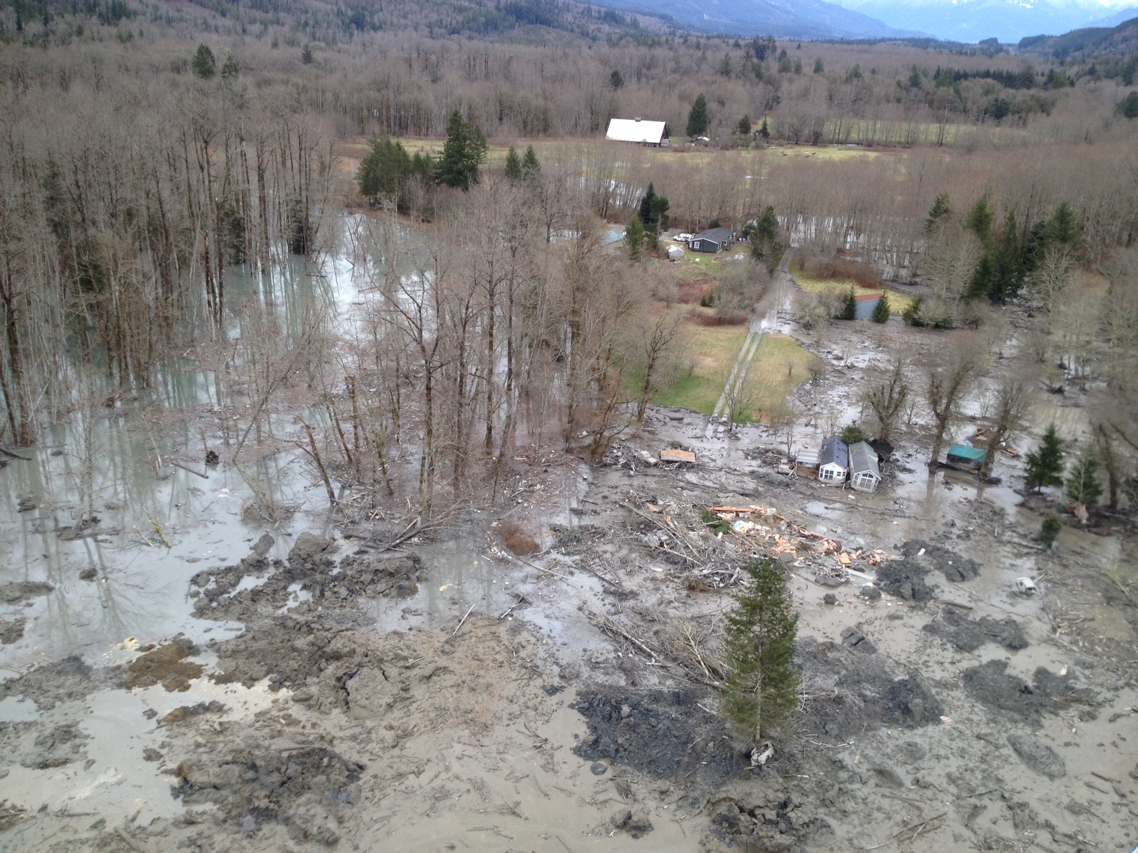 A view of the Oso area of Snohomish County, Wash., March 22, 2014, as a U.S. Navy search and rescue crew and three Navy firefighters based at Naval Air Station Whidbey Island, Wash., assist with search and recovery efforts following a mudslide that killed at least 14 people and left dozens missing. The slide covered a 1-square-mile area in a rural community about 55 miles northeast of Seattle.